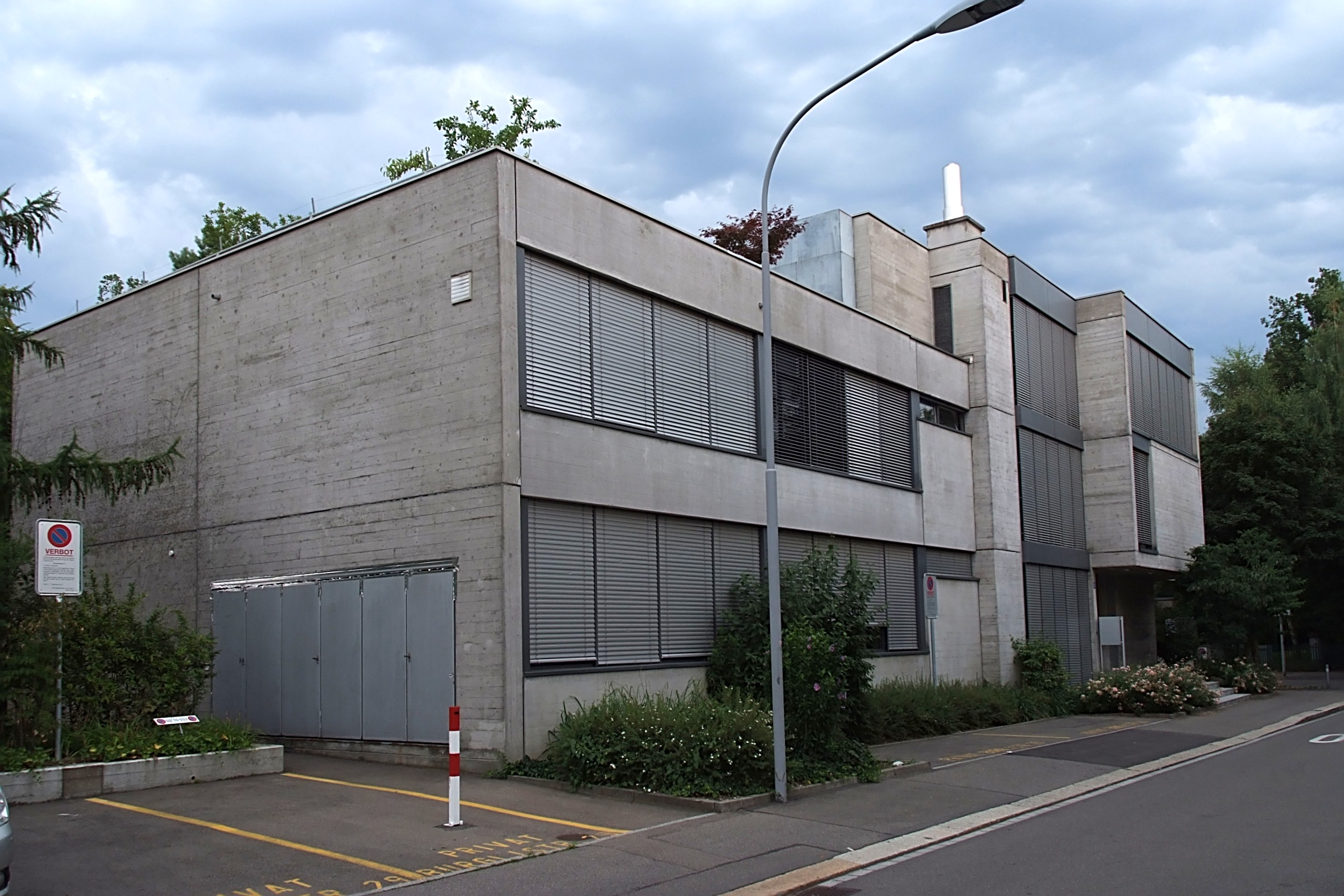 Head office of Betty Bossi - Bürglistrasse 29 CH-8021 Zürich